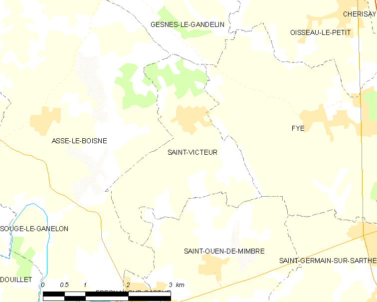 Map of French municipality